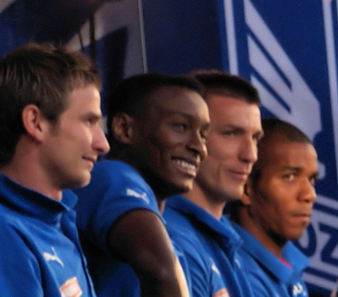 Bosacki, Arboleda, Djurdjević and Henríquez from Lech Poznań.